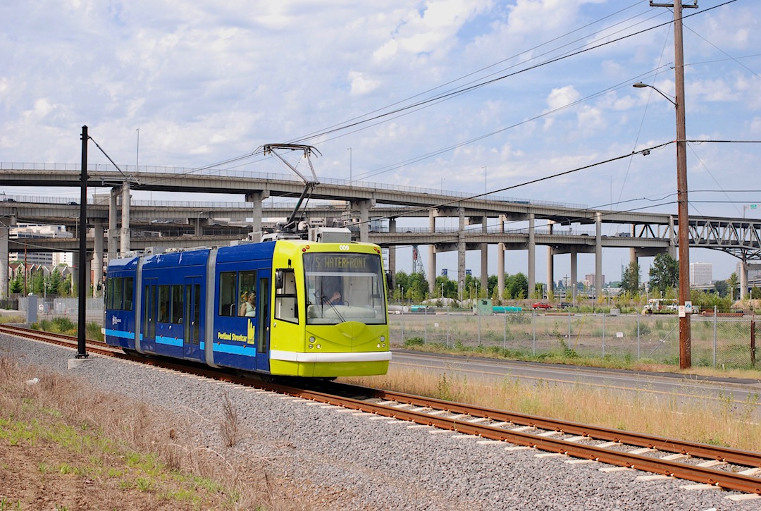 Portland Streetcar car 009, a 2006 Inekon 12-Trio, southbound on a section of ballasted, two-way single track next to SW Moody Avenue, on an extension of the line that had opened in October 2006. In 2011, Moody Avenue was realigned, widened, and raised slightly in elevation, and a new double-track streetcar alignment was incorporated into it, to replace this alignment, which had always been temporary (as the realignment of Moody had been planned for years). The Marquam Bridge (on Interstate 5) is in the background.